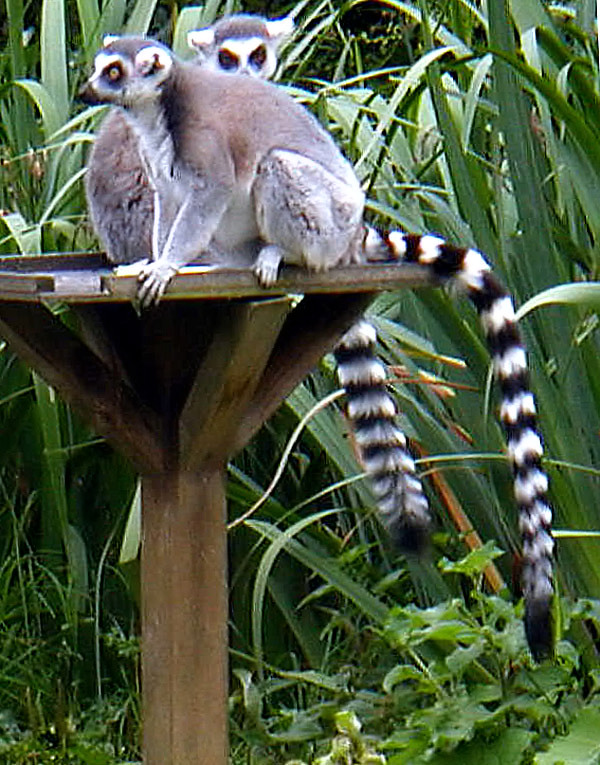 Ring-tailed Lemurs (Lemur catta) Bristol Zoo, Bristol, England.